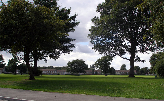 "The Ponderosa", Tile Hill North. Although this open recreational space is unnamed on the OS map, its has been known locally, for some considerable time, as "The Ponderosa". When the neighbouring housing estate was new, the TV western "Bonanza" was also new and popular. People must have seen some resemblance to Bonanza's Ponderosa ranch! Check for yourself